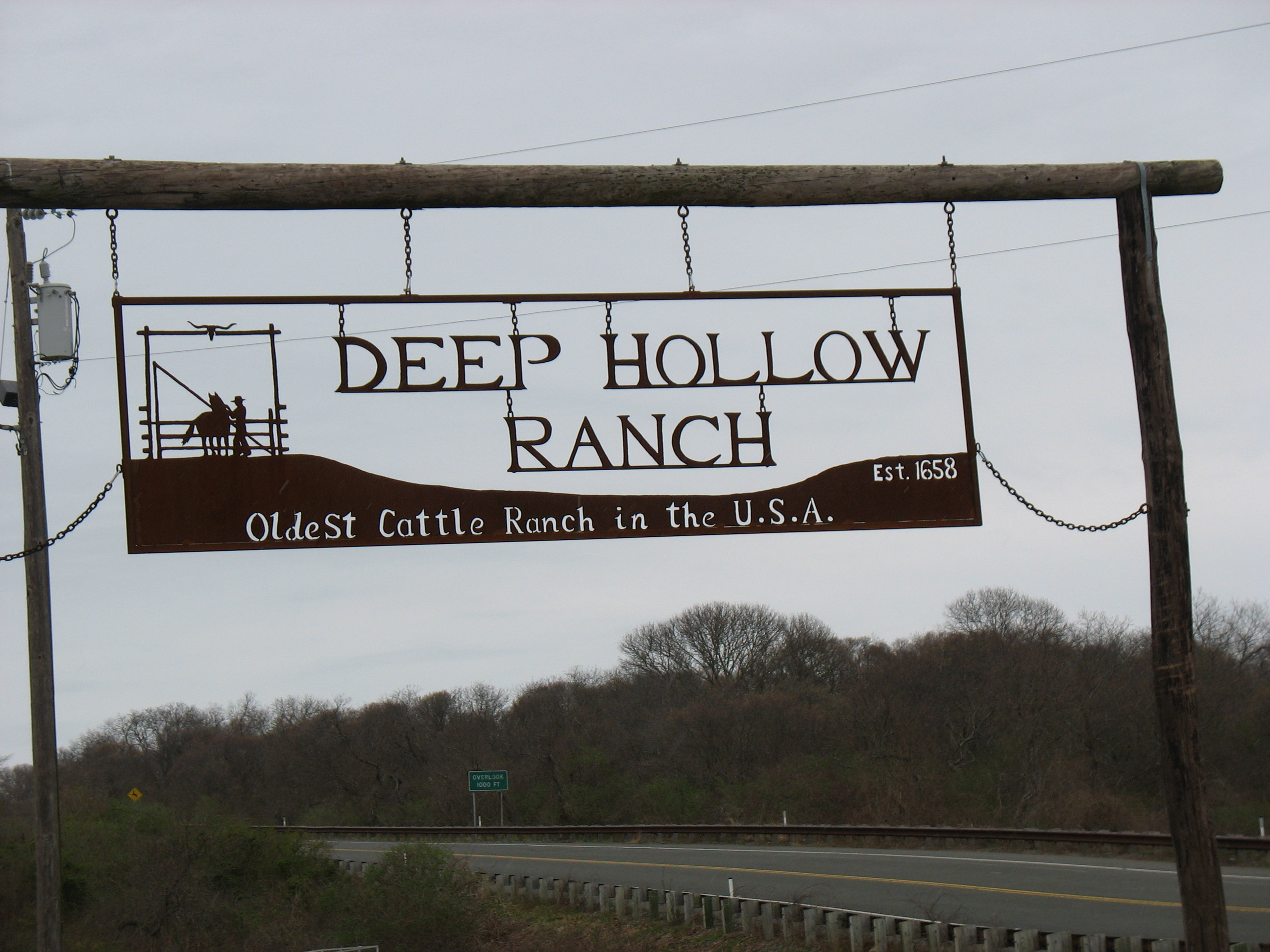 Deep Hollow Ranch sign photo taken April 22, 2006 at Theodore Roosevelt County Park